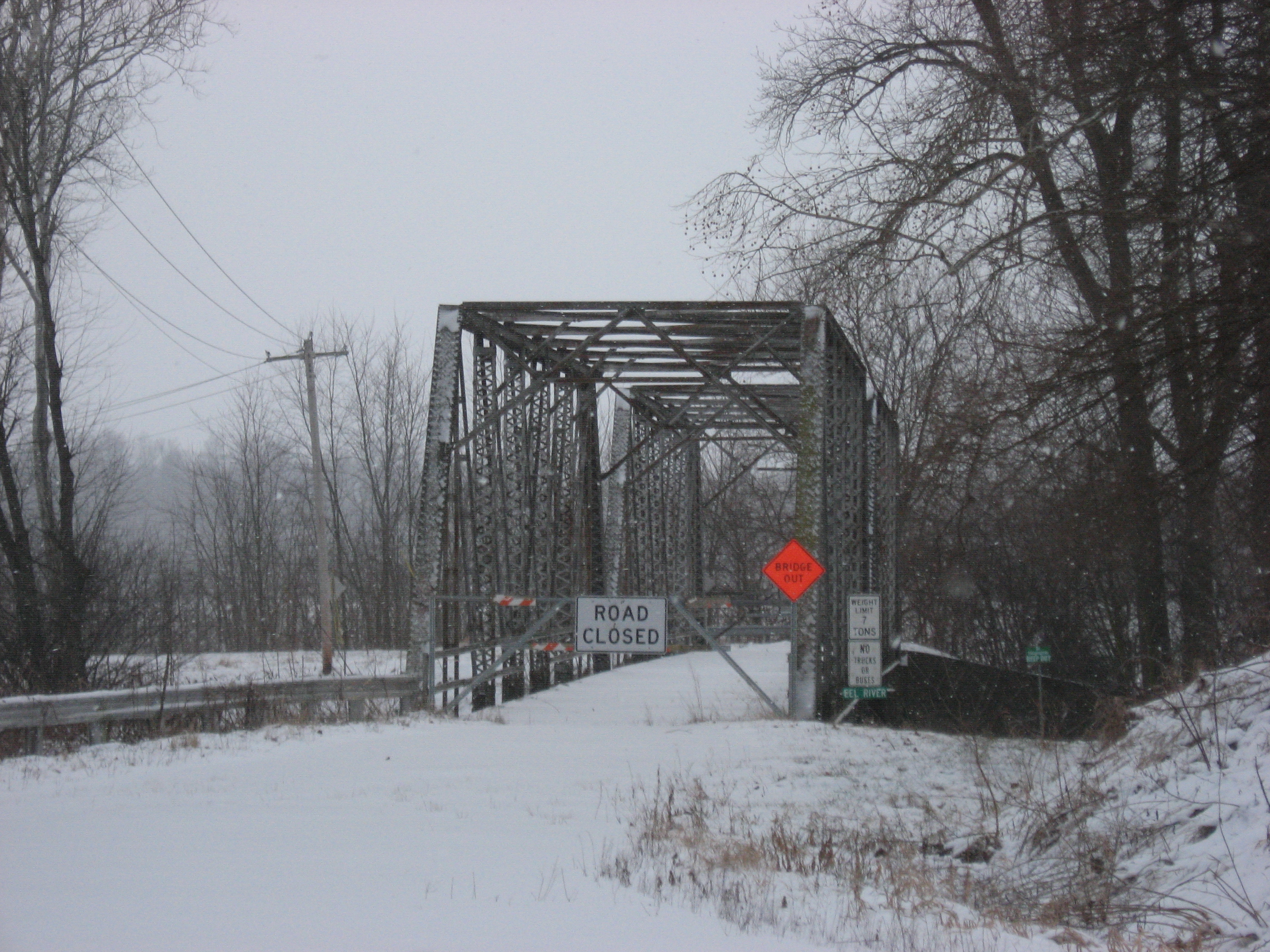 Northern portal of the Eikenberry Bridge, which formerly carried County Road 100E over the Eel River west of Chili in Richland Township, Miami County, Indiana, United States. Built in 1920, it is listed on the National Register of Historic Places.